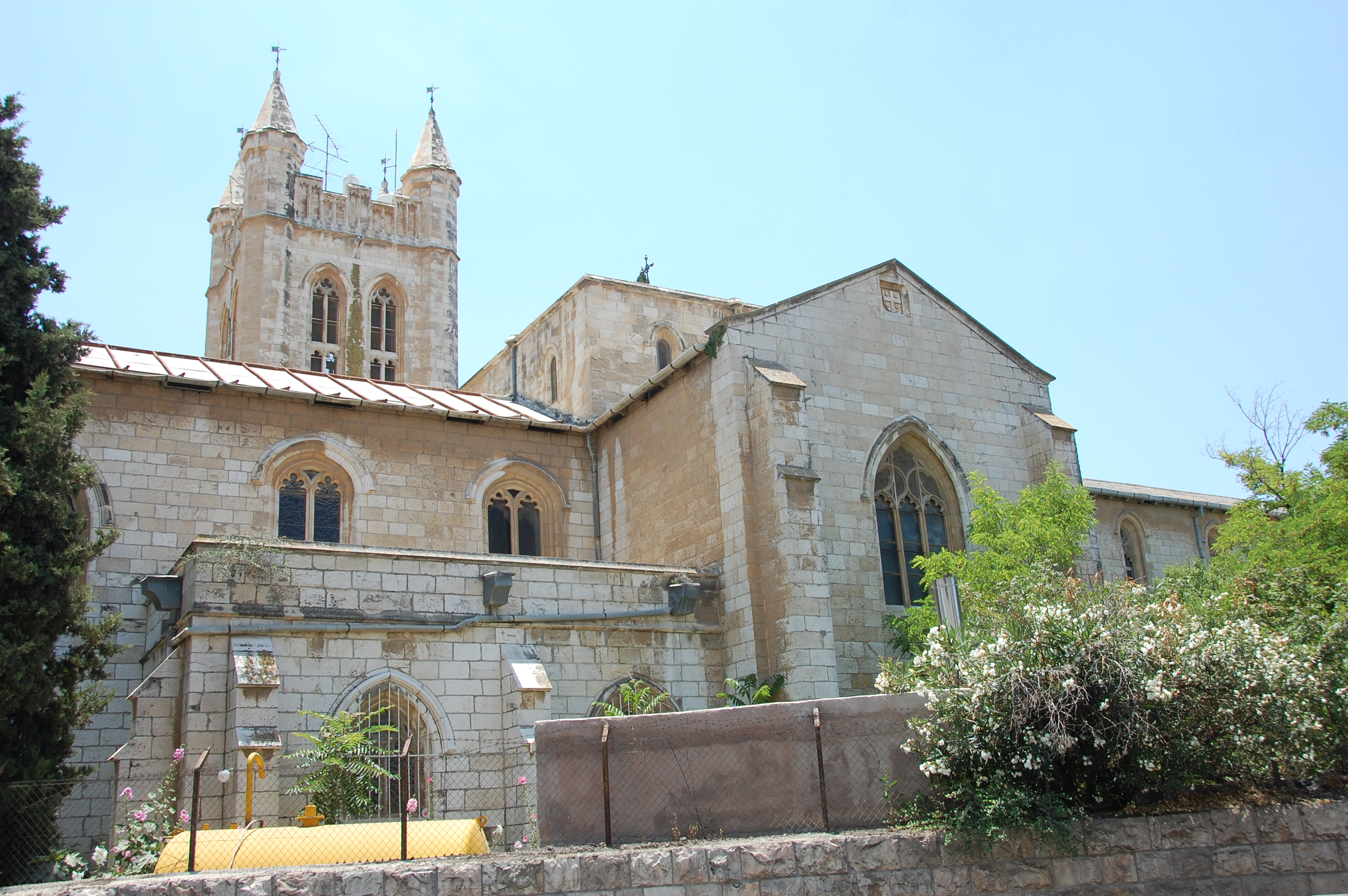 St. George's Cathedral,jerusalem